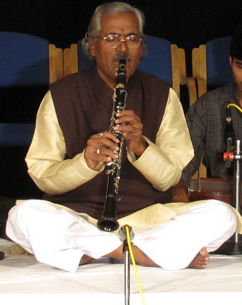 Pandith Narasimhalu Vadavati